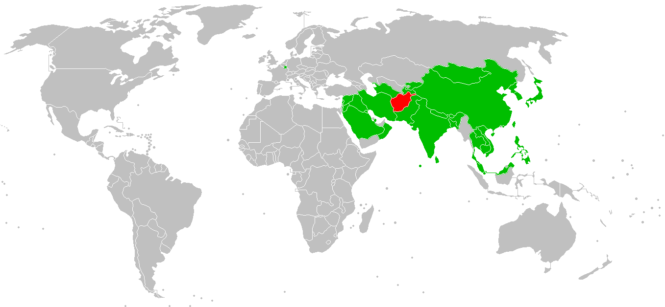 Afghanistan national football team all opponents